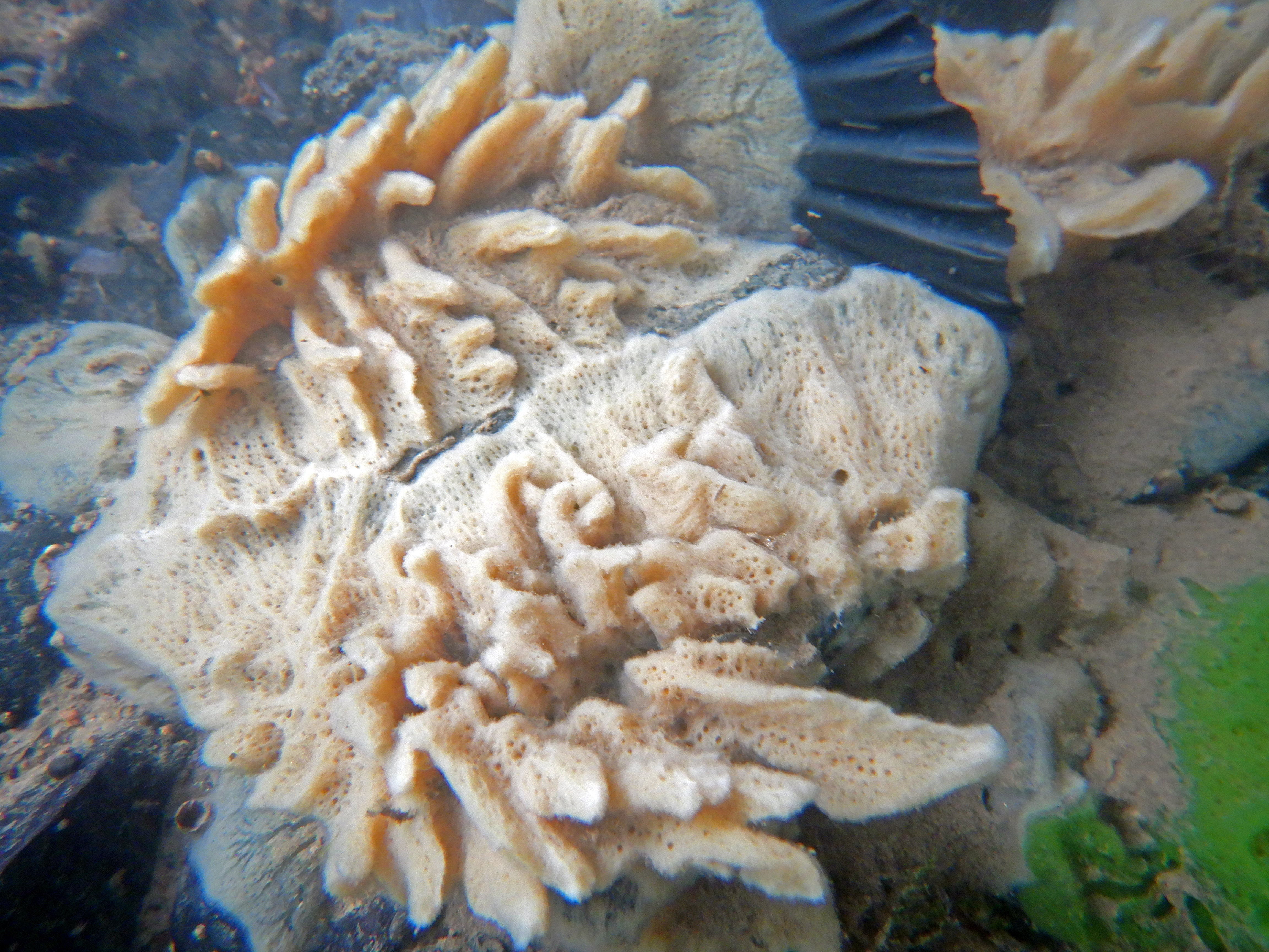 Fresh water Sponge in Authie river (in the Region Hauts-de-France, Northern France). Note: Despite several rainy periods in the hours and days before this photo the water remained clear, the sponges help to filter the water, but not in winter for some species like spongilla lacustris.